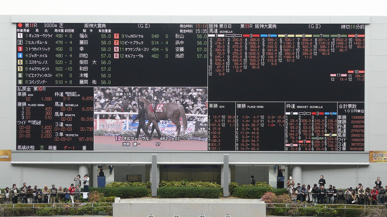 Hanshin_Racecourse_006